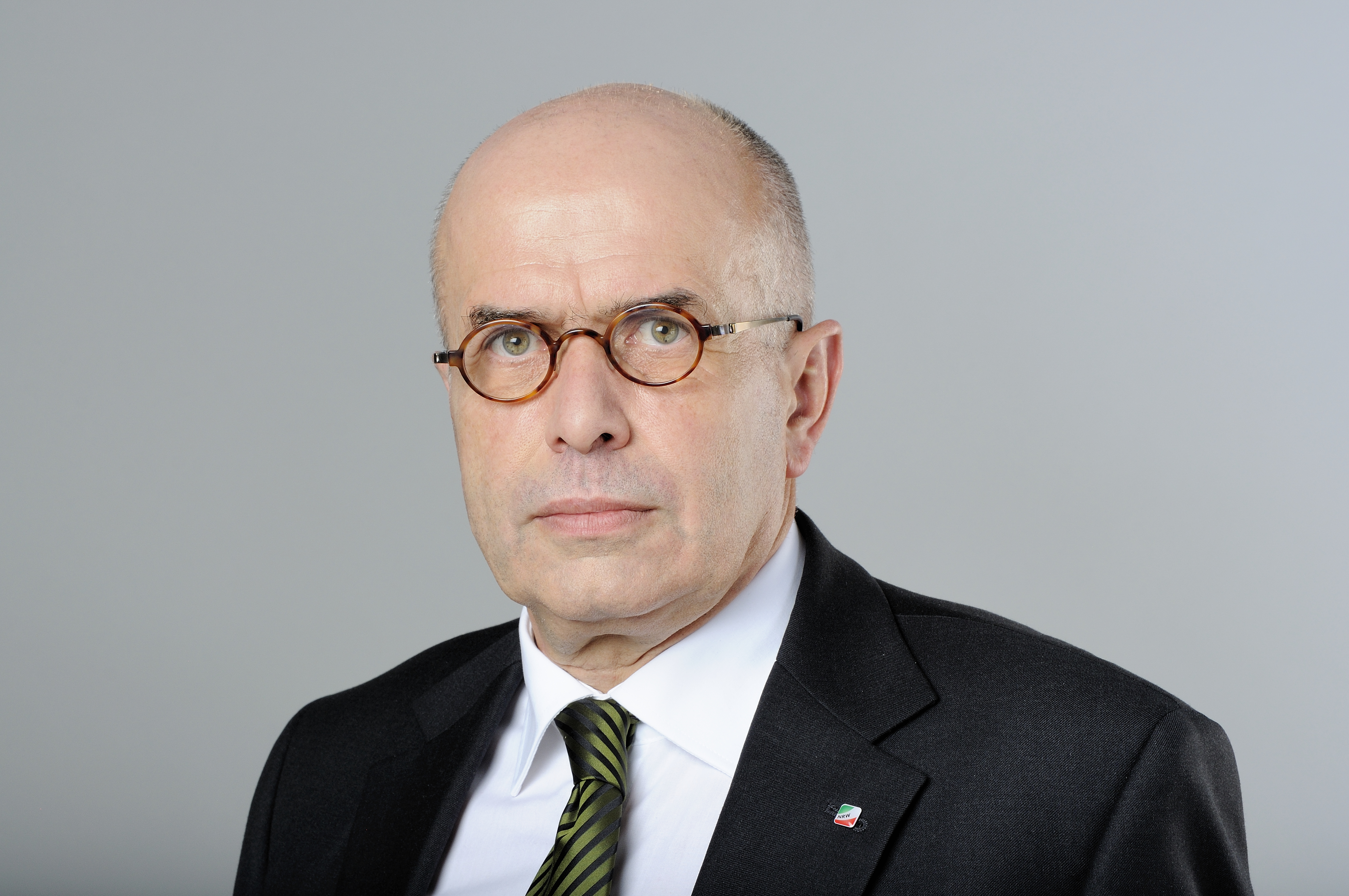 Walter Kern, North Rhine-Westphalian politician (CDU) and member of the Landtag of North Rhine-Westphalia.